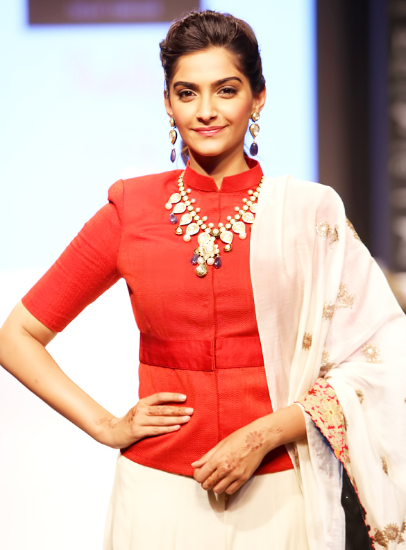 Kapoor inaugurates IIJW 2013 in Delhi